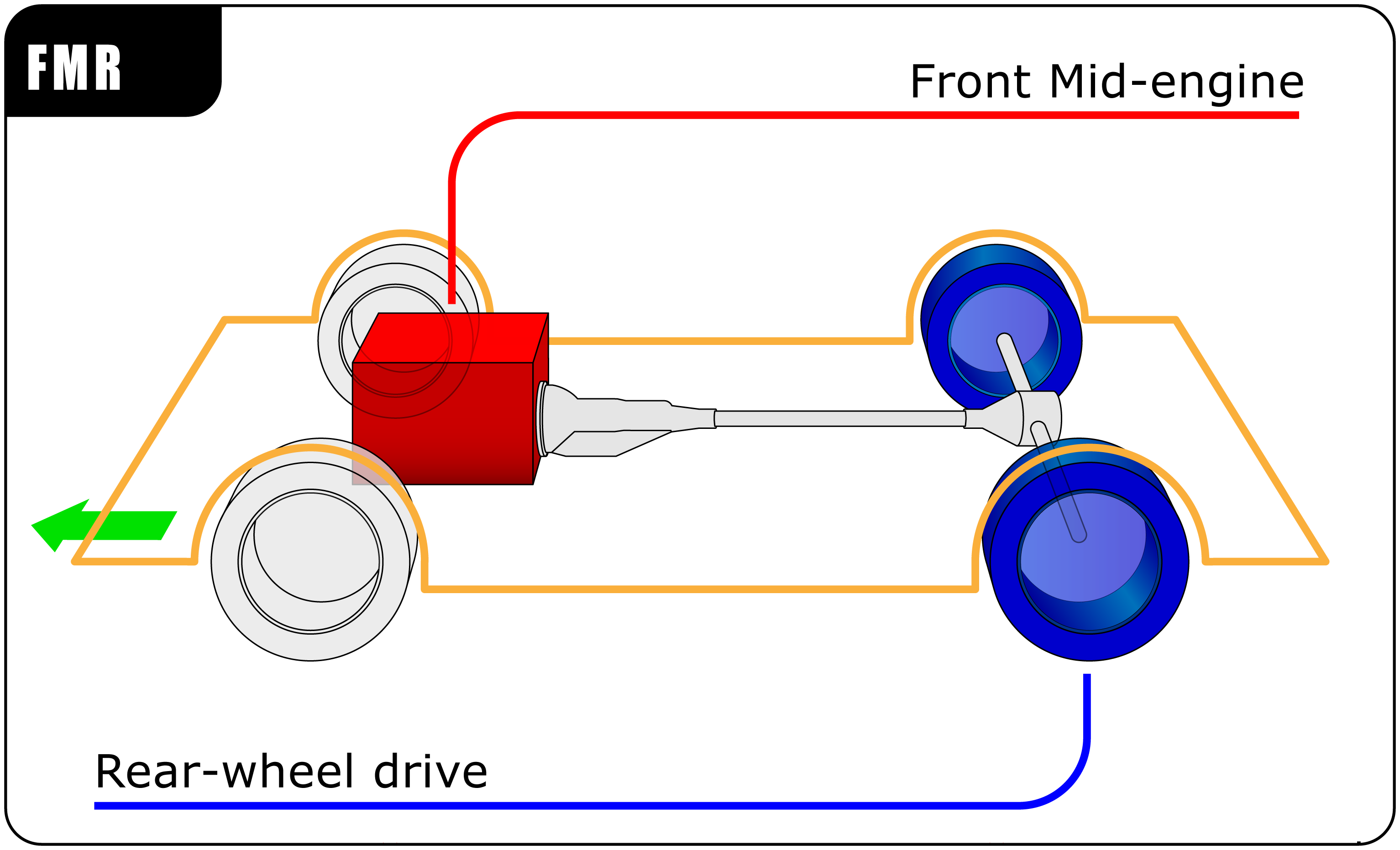 Vehicle engine and drive wheel placement diagrams (German versions coming soon)